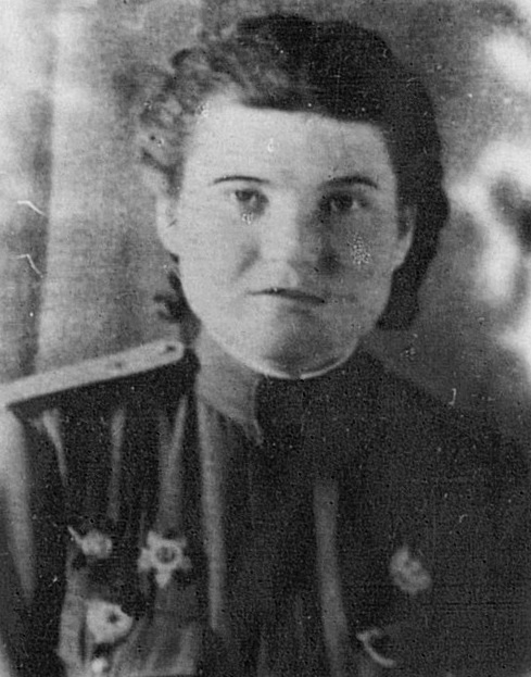 Portrait of Veria Belik in uniform of the Soviet Airforces. Seen are her Guards pin, Order of the Red Star, Order of the Patriotic War, and Order of the Red Banner